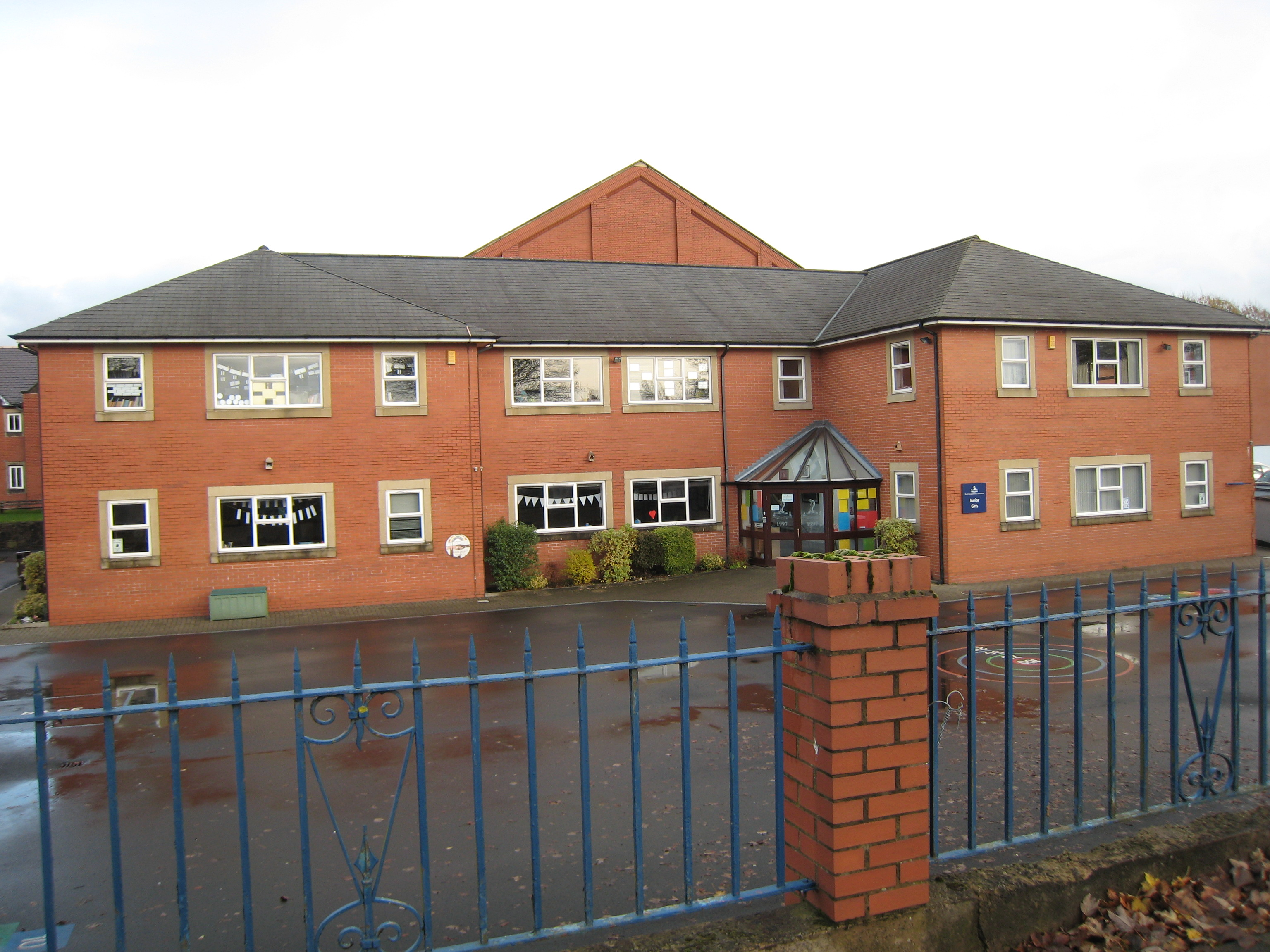 Bury Grammar Junior Girls' School, Bridge Road, Bury, Lancashire, BL9 0HH